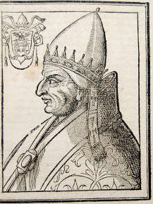 Pope Gregory VI (1045-46) - his face